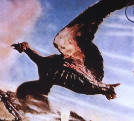 Rodan at detail of movie poster for 1956 Japanese film Rodan (空の大怪獣 ラドン, Sora no Daikaijū Radon).